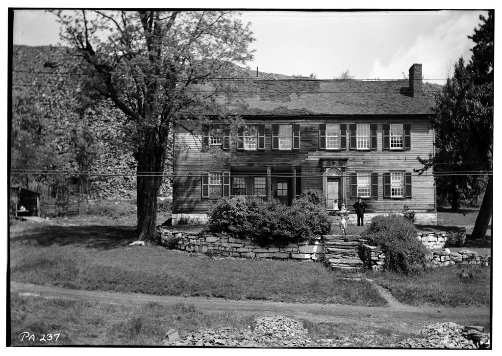 An 1938 photograph of the house of Jameson Harvey, a coal mine operator, built about 1832 in Plymouth Twp., Luzerne Co., Pennsylvania